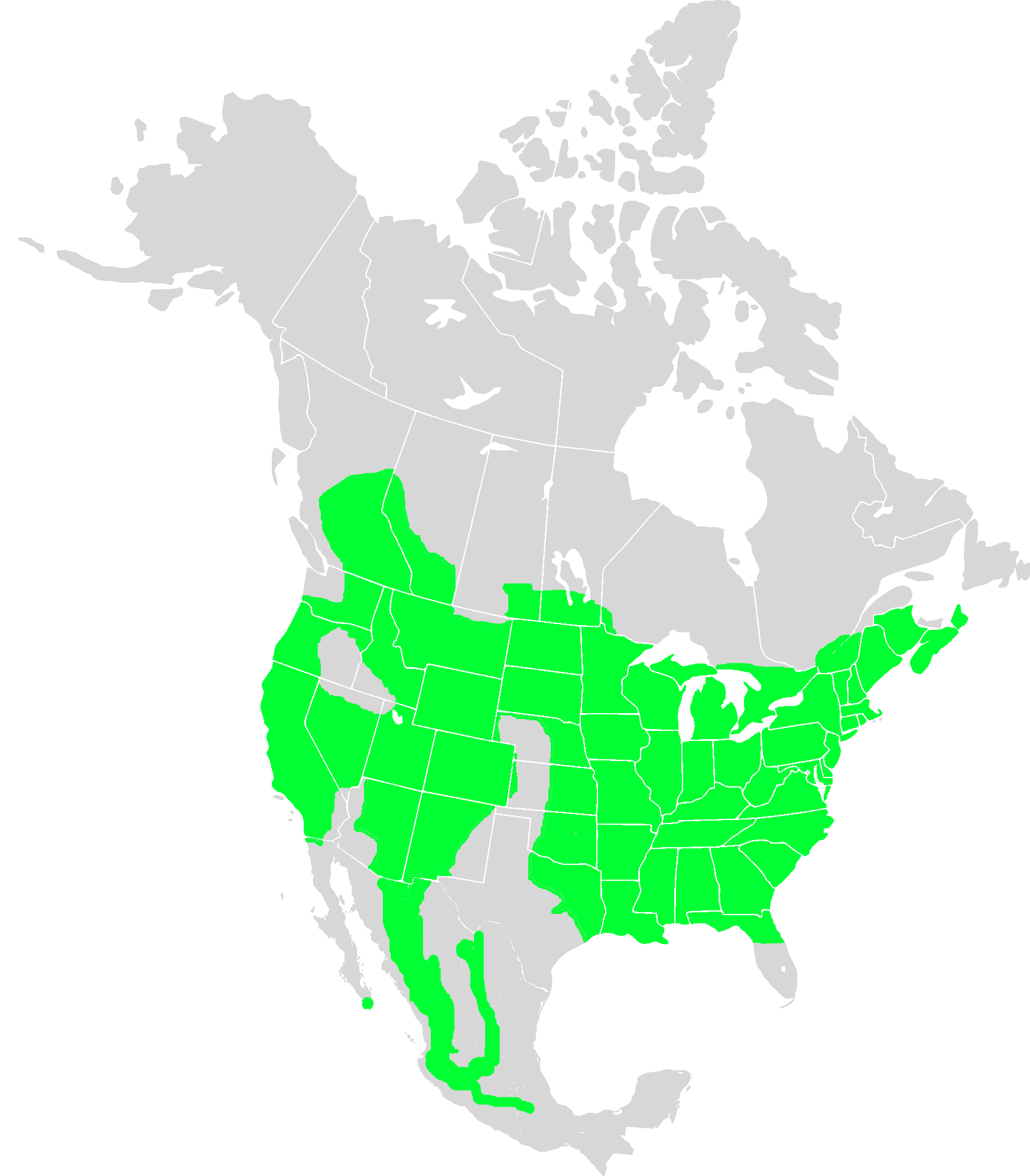 Range map of White-breasted Nuthatch, Sitta carolinensis, based on Harrap, Simon; Quinn, David (1996) Tits, Nuthatches and Treecreepers, Christopher Helm ISBN: 0713639644.